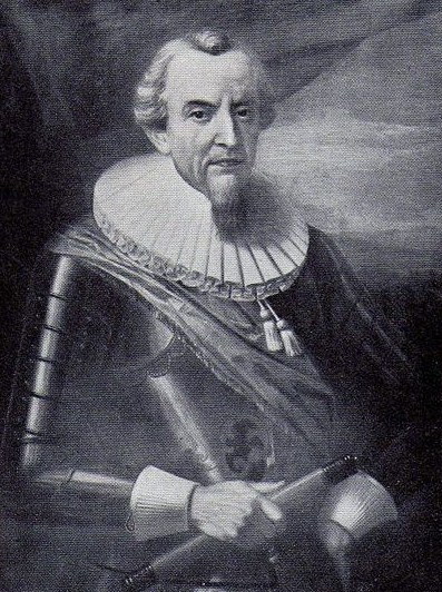 Portrait du comte palatin Christophe Pfyffer d'Altishofen